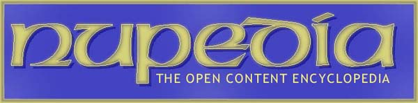 Nupedia Logo